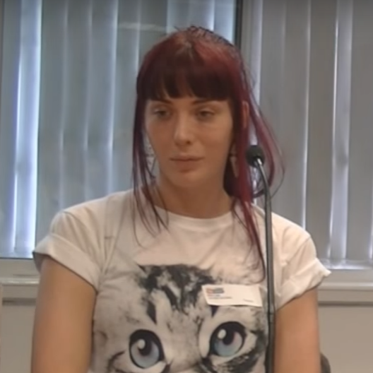 Paris Lees, Serge Nicholson at Pink Therapy in 2014